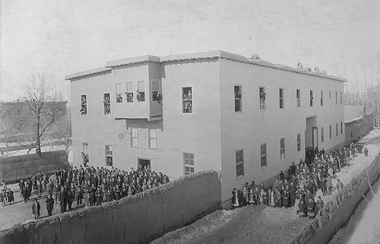 Armenian Yeremian school in Van city